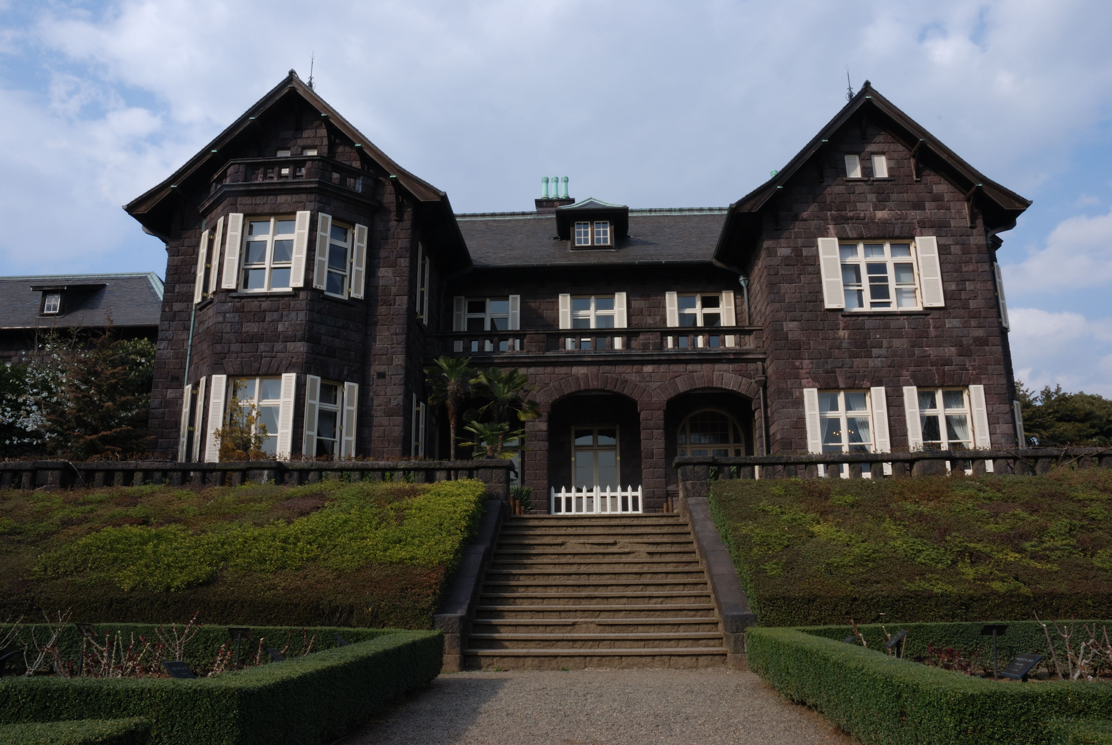 Western-style house at Kyu-Furukawa Gardens